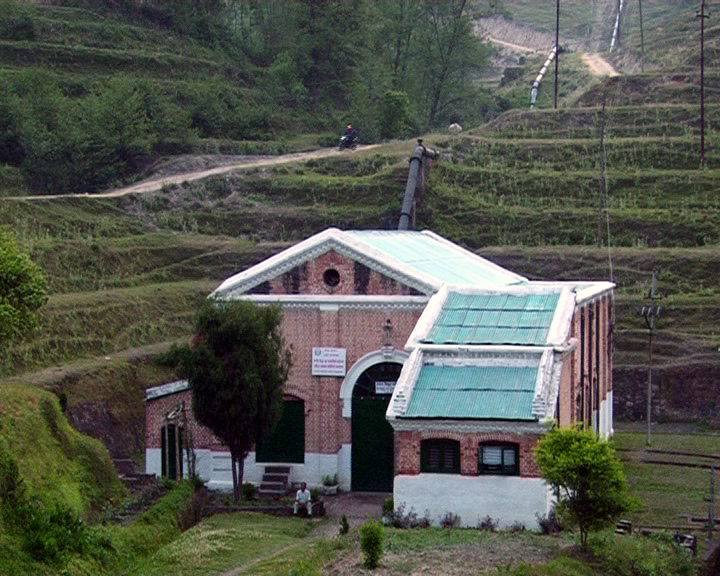 Nepal's First electricity project